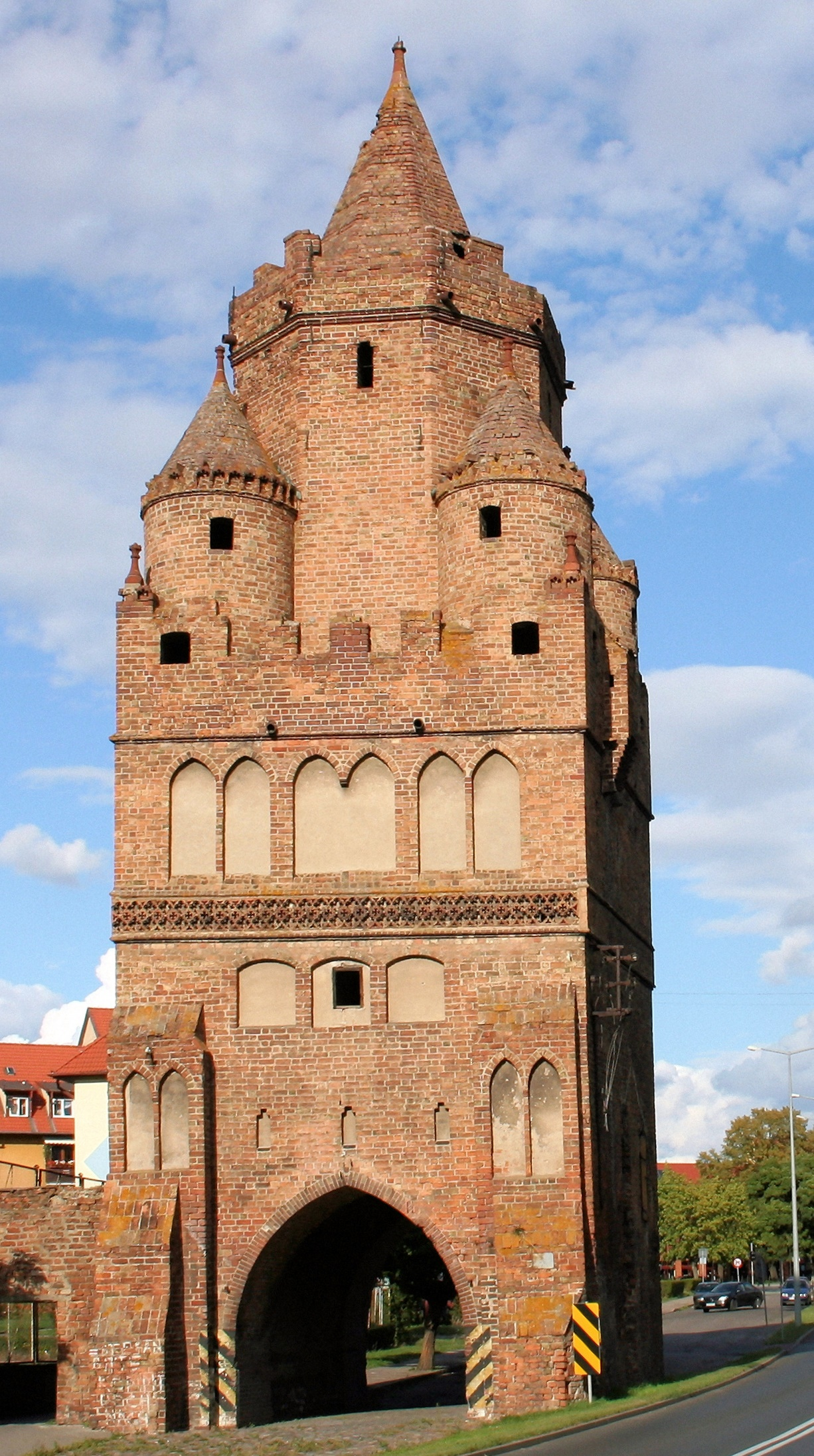 Schwedter Tor in Chojna, West Pomeranian Voivodeship, Poland